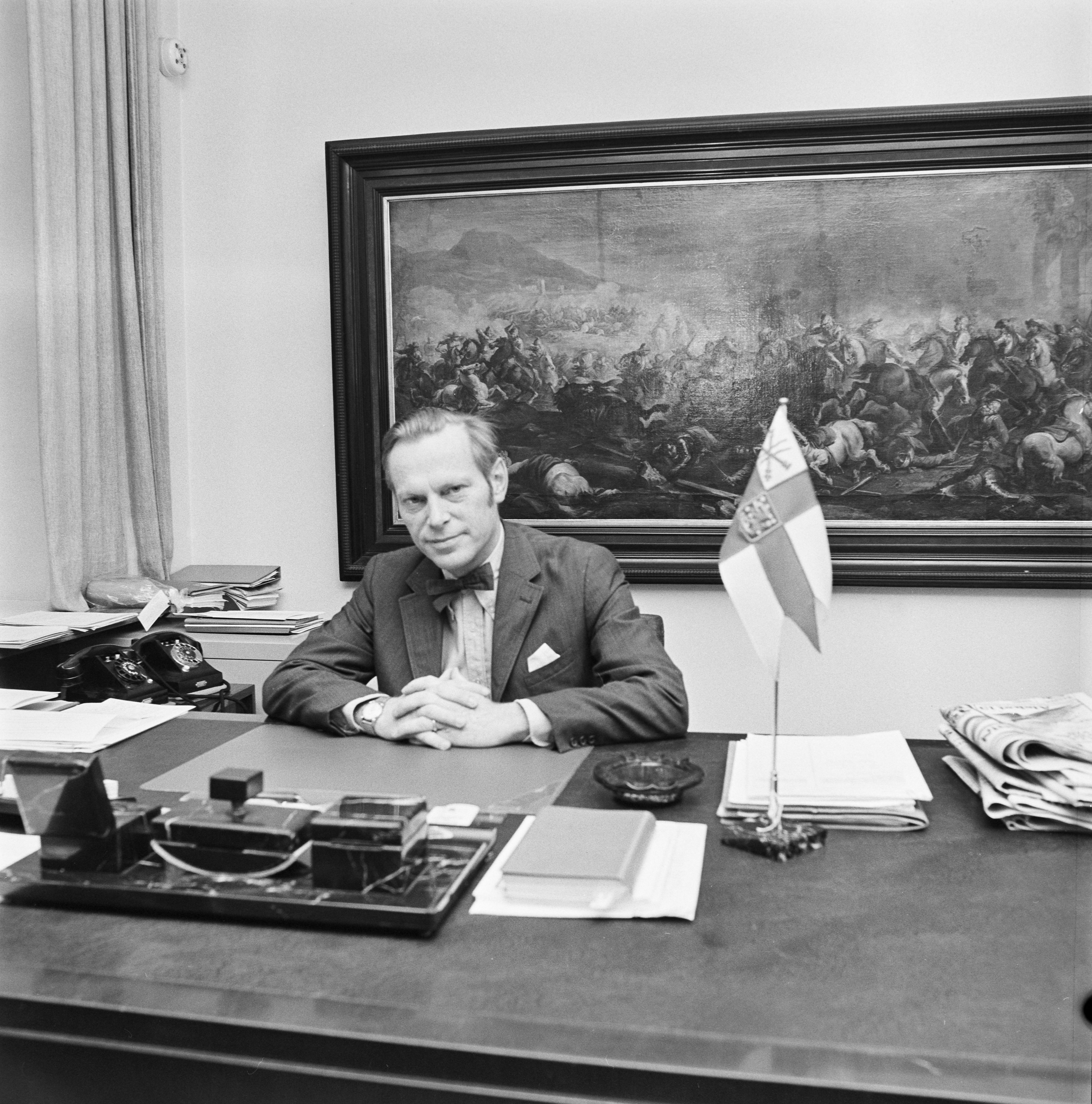 Photograph of the Finnish politician Kristian Gestrin (1929–1990).